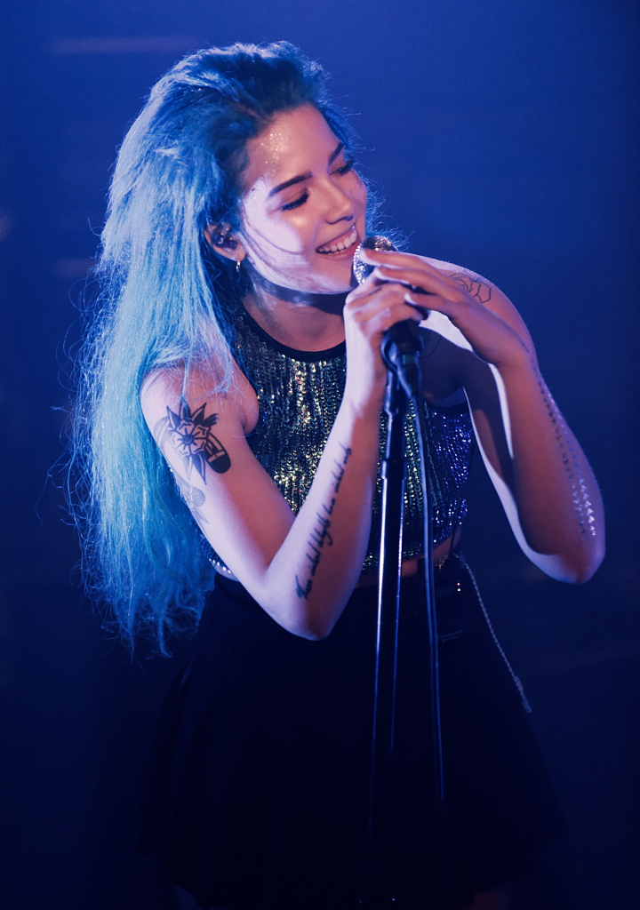 Halsey performing live at The Troubadour in Los Angeles California on Wednesday March 11th, 2015. This was the first official stop on Halsey's first-ever headlining tour.